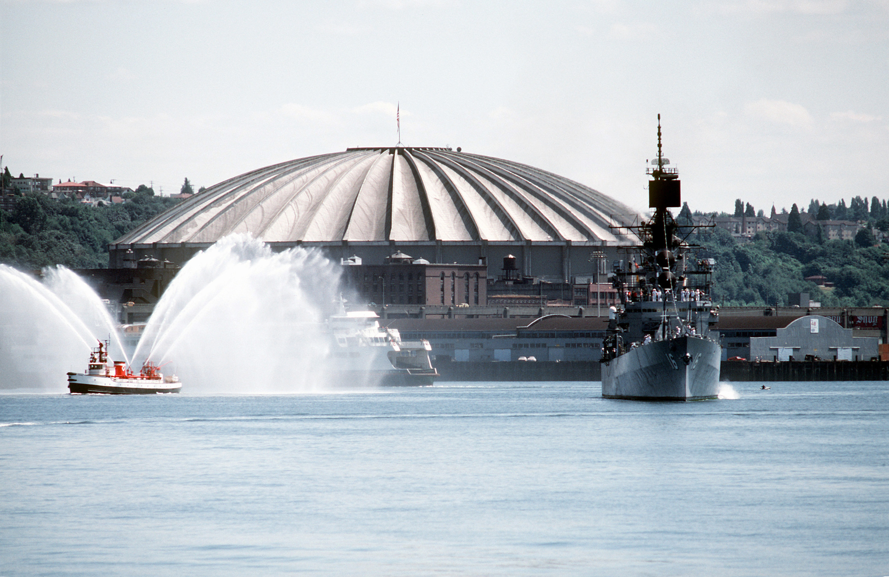 The U.S. Navy guided missile cruiser USS Leahy (CG-16) arriving in port during the Seattle Sea Fair 1982, Washington (USA), on 6 October 1982. A tug boat sprays water into the air to welcome it. The Kingdome Stadium is visible in the background.